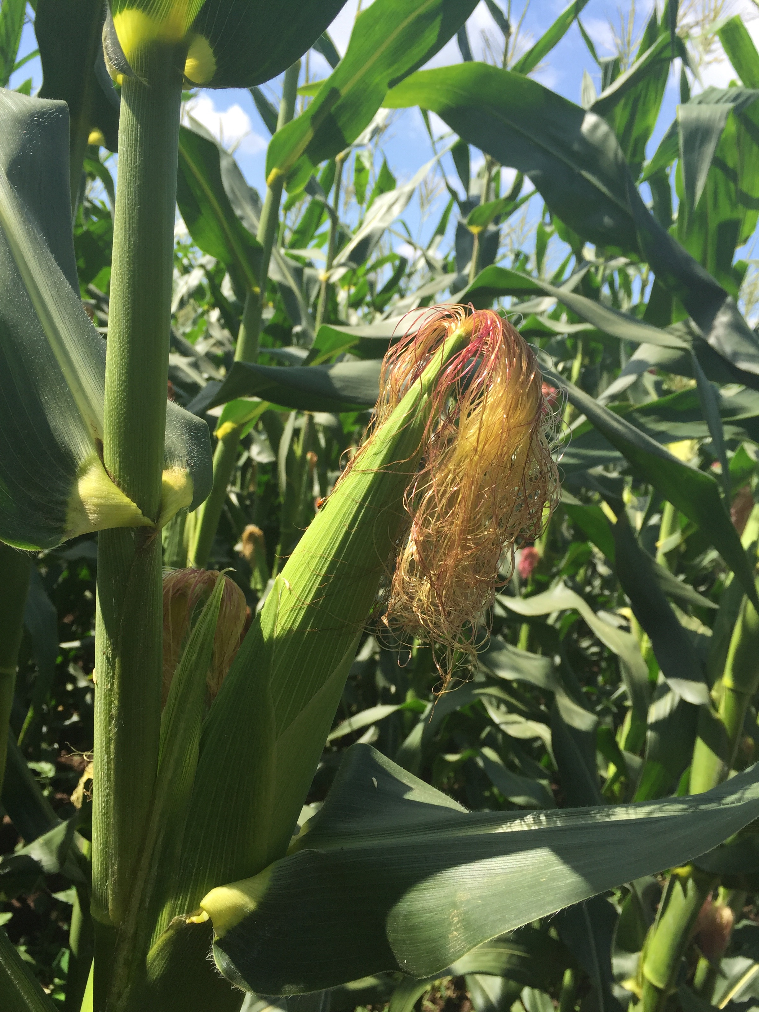 Corn in Yanbian, China.